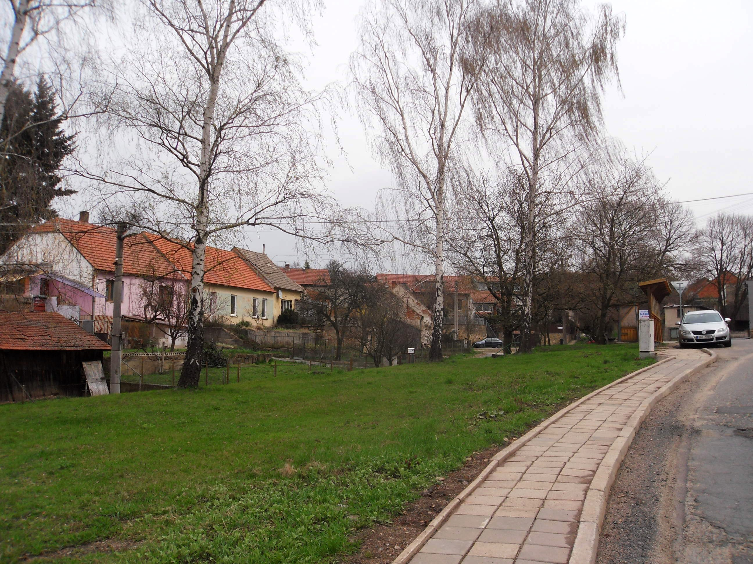 Padochov, Oslavany, Brno-Country District, Czech Republic